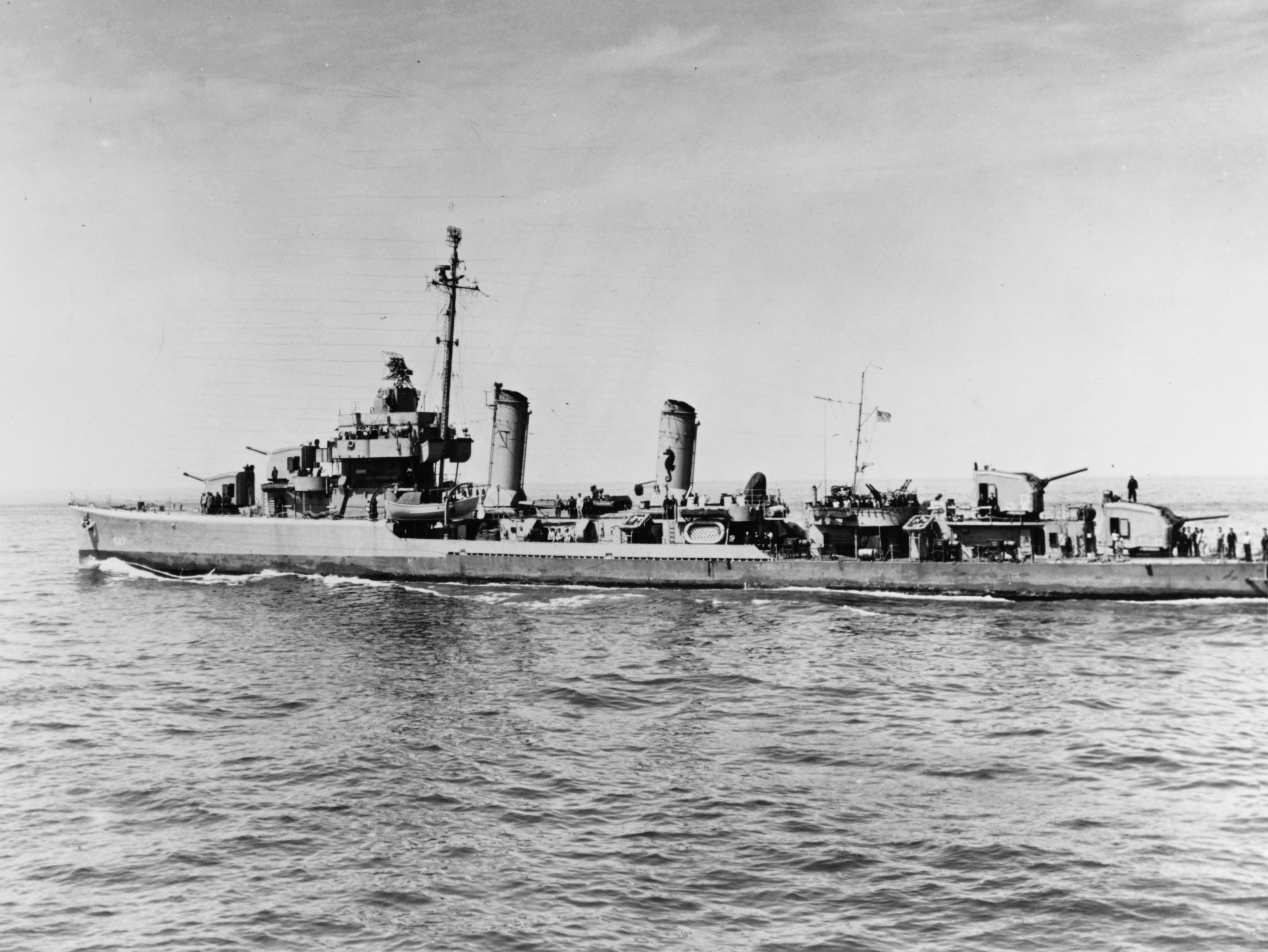 The U.S. Navy destroyer USS Thompson (DD-627) during preperations for the Normandy landings, circa in late May 1944. Note the seahorse marking on Thompson's after smokestack. The photo was taken from the battleship USS Arkansas (BB-33).